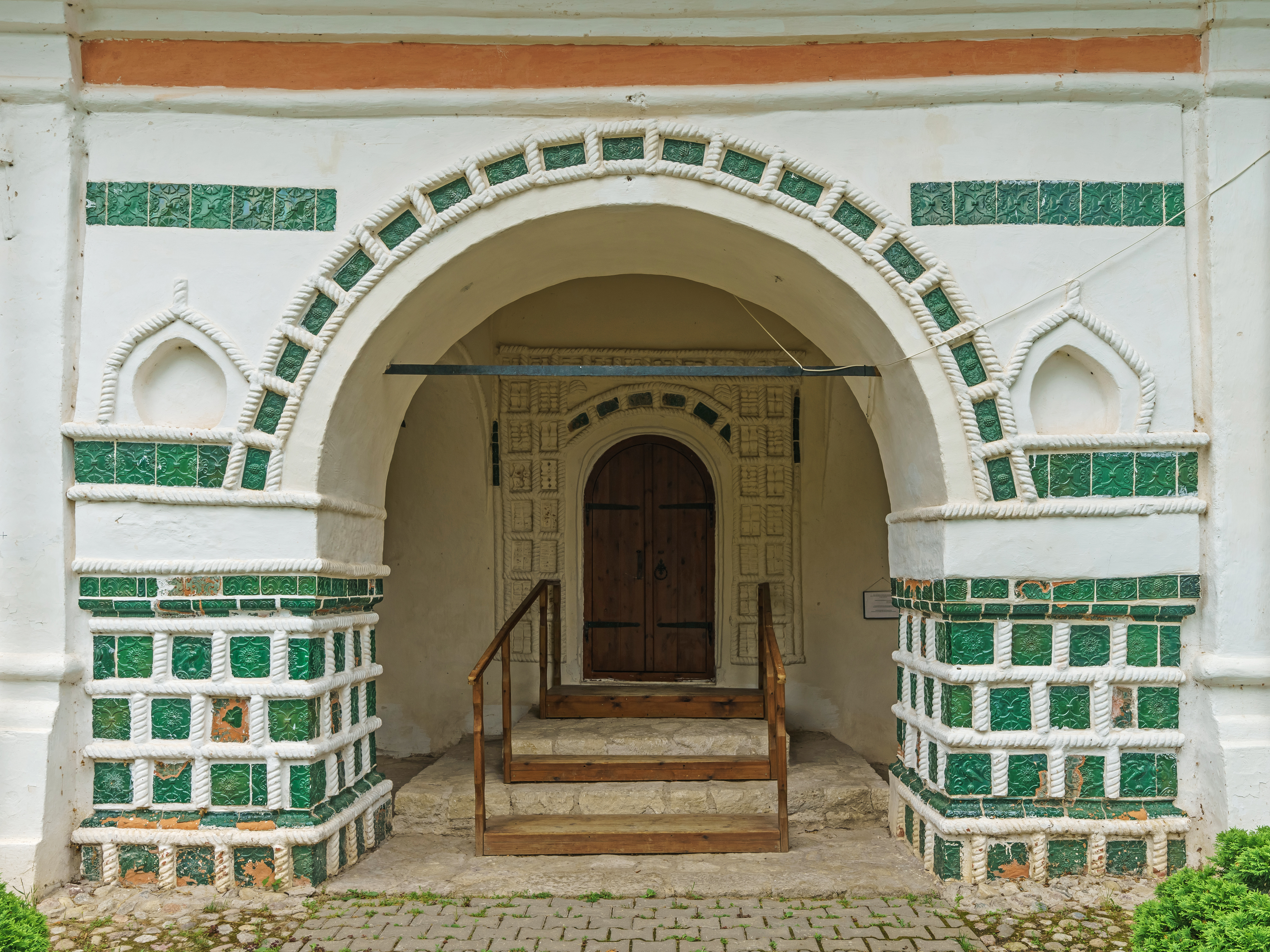 Church of the Nativity of St. Mary in Snetogorsky Monastery in Pskov, Russia